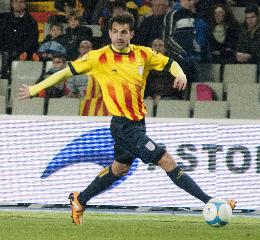 Spanish football player Cesc Fàbregas during friendly match Catalonia vs. Cape Verde